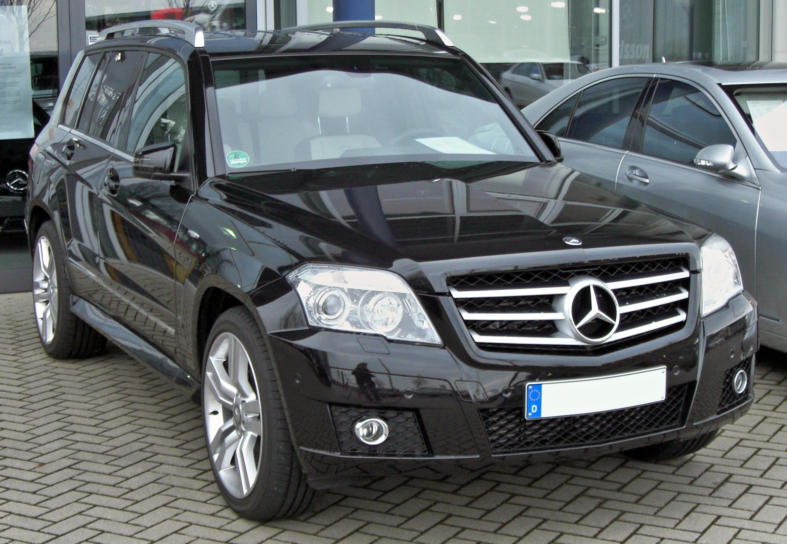 Mercedes GLK „Edition 1“